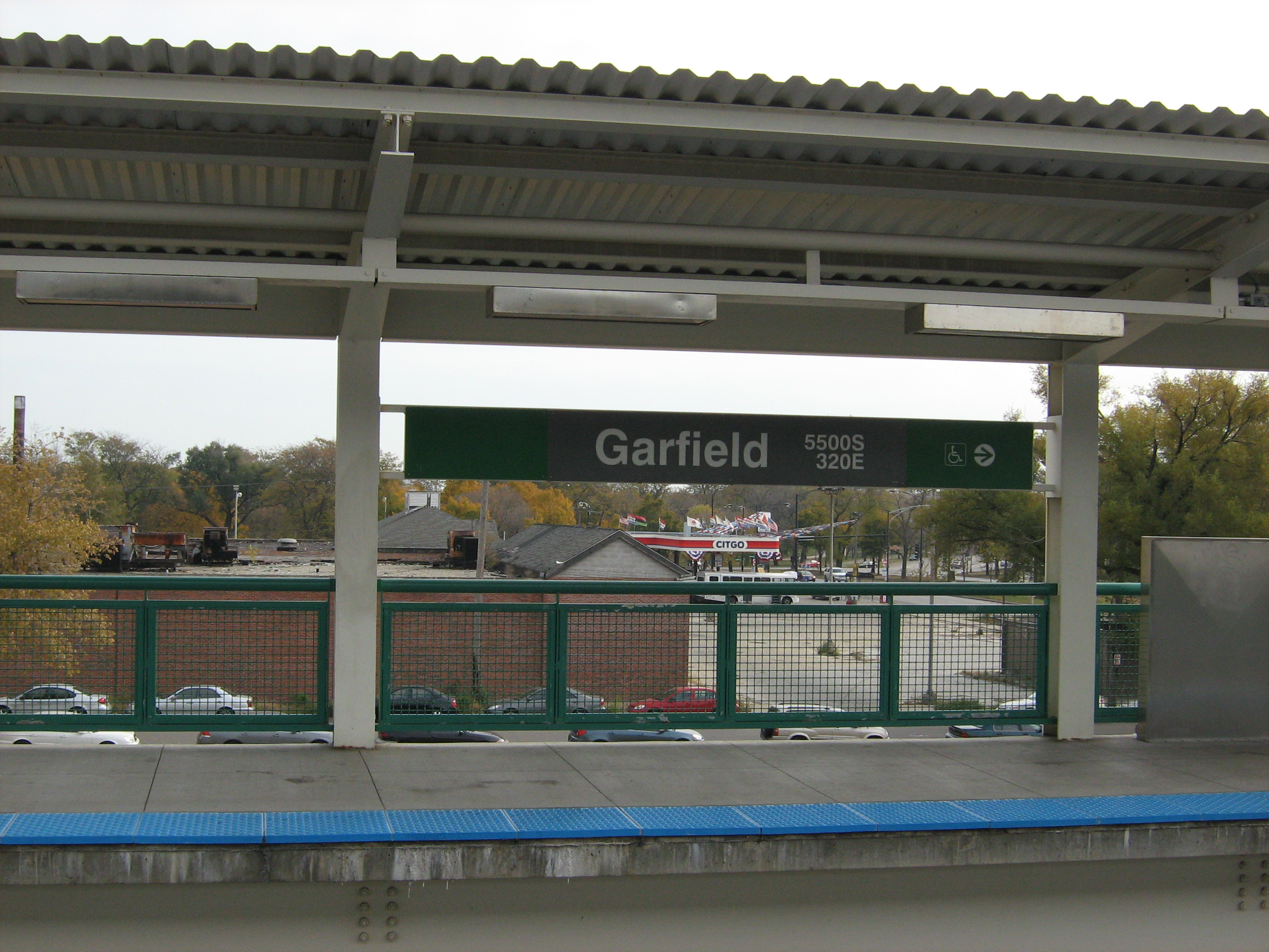 East view of the northbound platform at Garfield Station on the CTA Green Line.